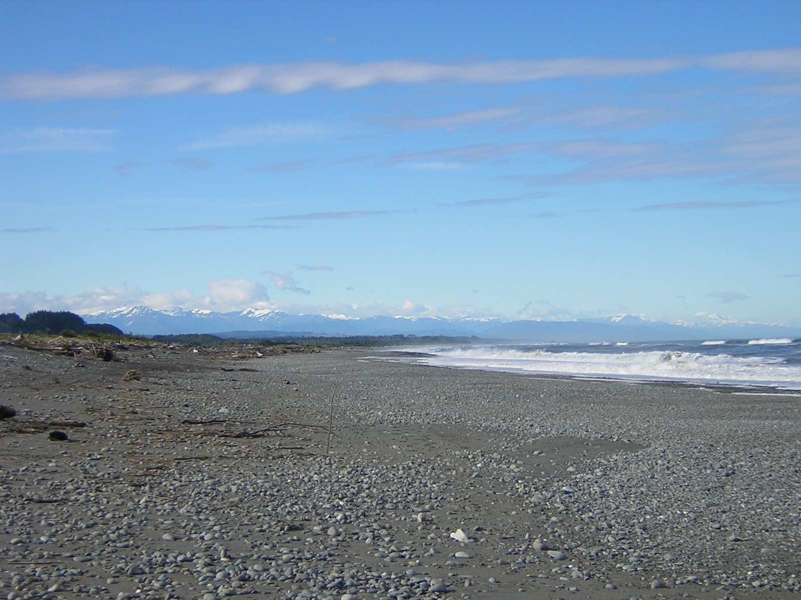 Mountains including Aoraki/Mount Cook seen from a beach near Greymouth, New Zealand.